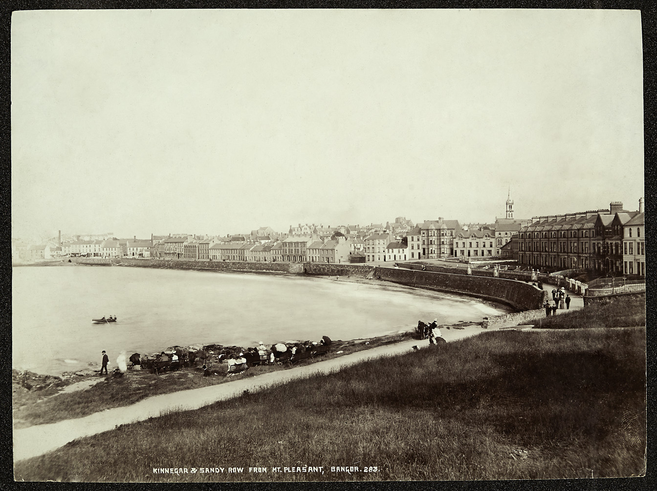 Creator: R. Welch (Photographer) Date: 1914 Original Format: Photographic Print Description: Kinnegar and Sandy Row from Mount Pleasant, Bangor, County Down PRONI Ref: D1403_2~008~A Copying and copyright: Please For Copy Orders, contact: For fees and charges